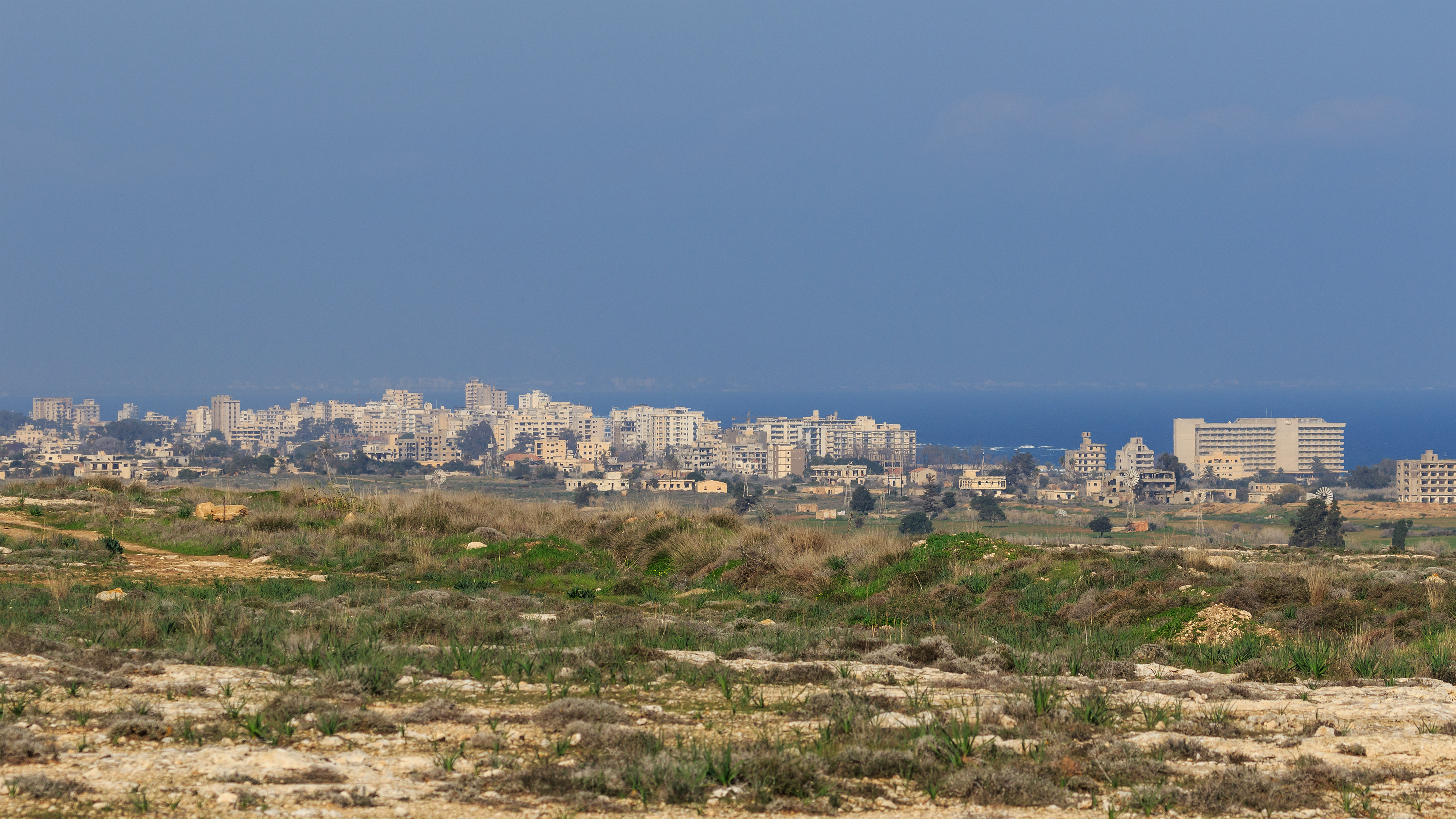 Remote view of Varosha from Paralimni, Cyprus